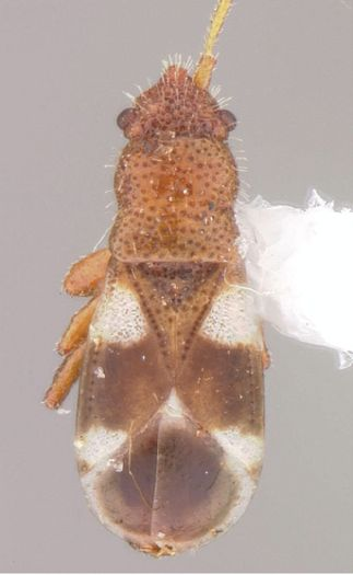 Dycoderus picturatus, subbrachypterous lectotype male.